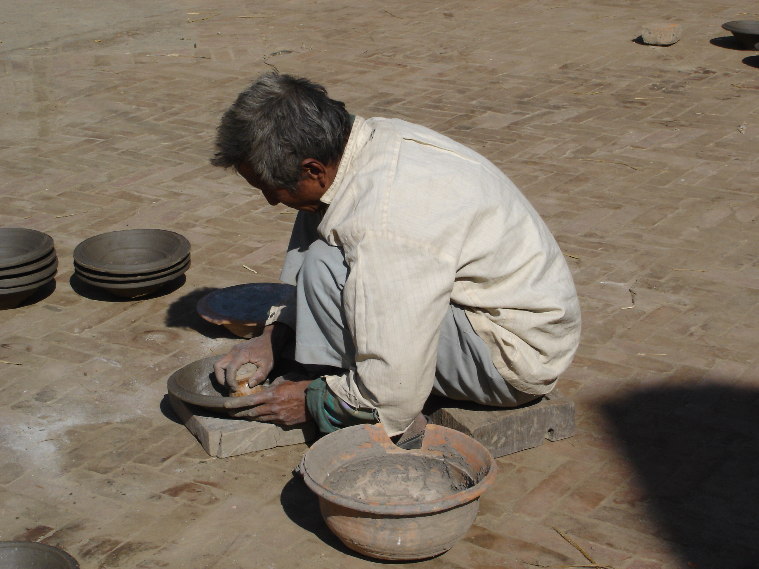 Pottery making in Kathmandu, Nepal